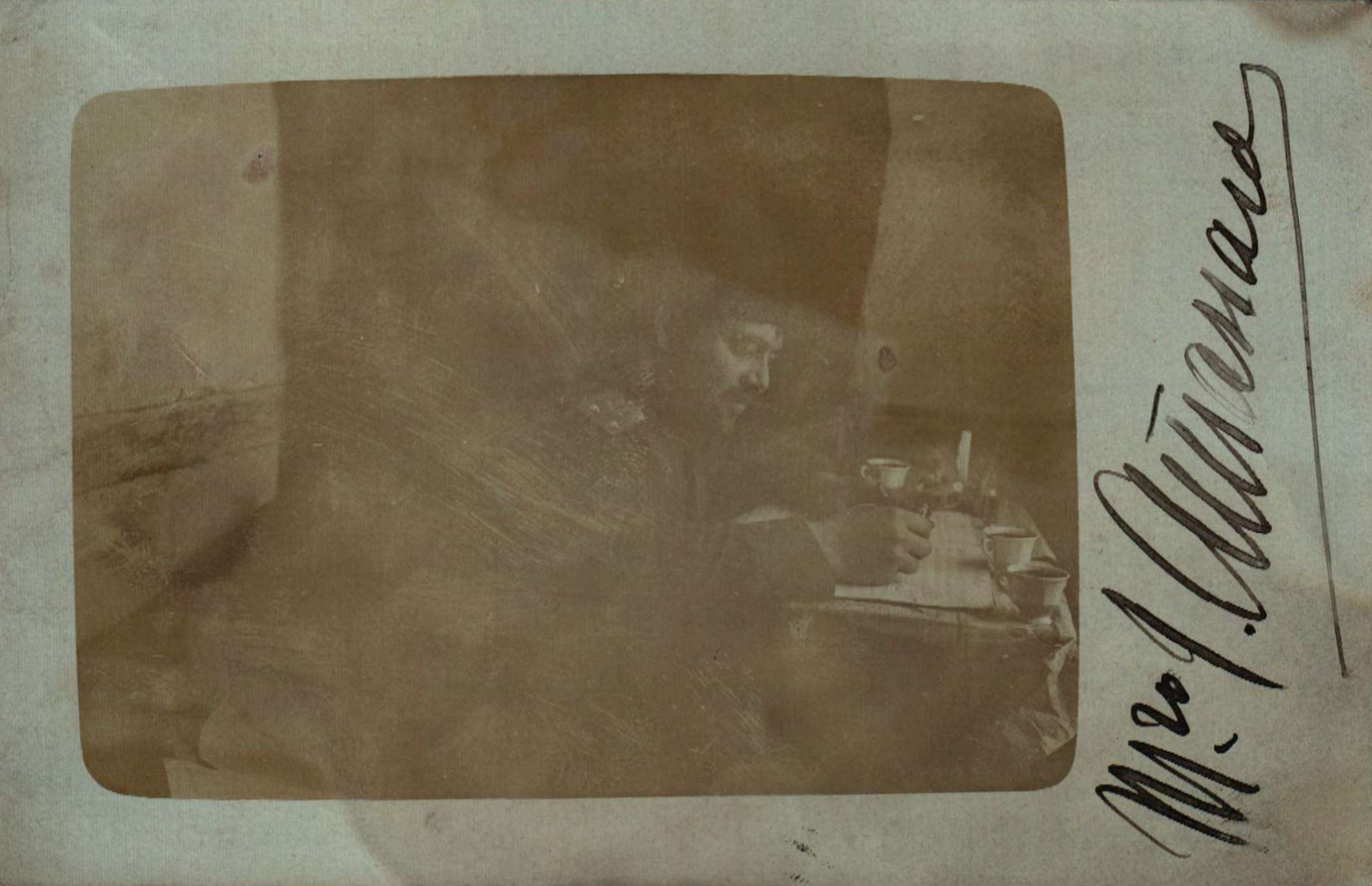 Bulgarian composer Georgi Atanasov